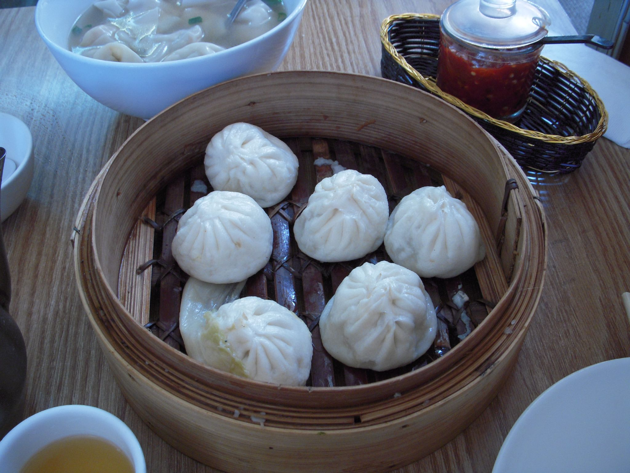 Gou bu li at Shanghai Dumpling King